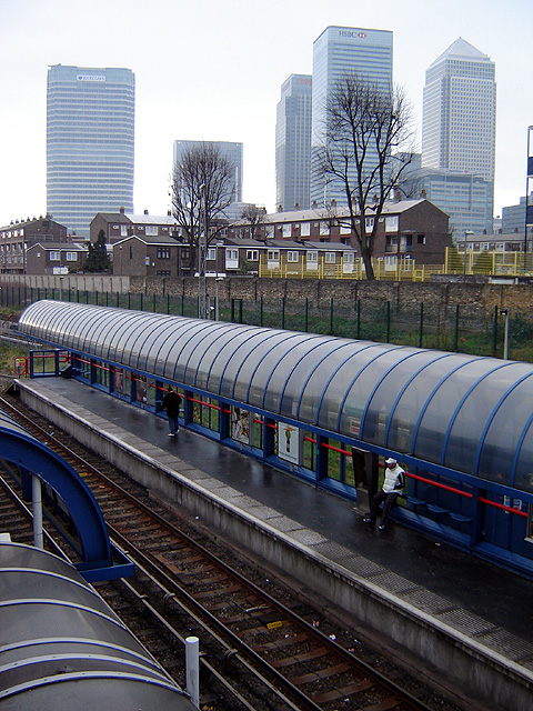 All Saints DLR Station, Poplar, Tower Hamlets, London. 4 February 2006. Photographer: Fin Fahey.